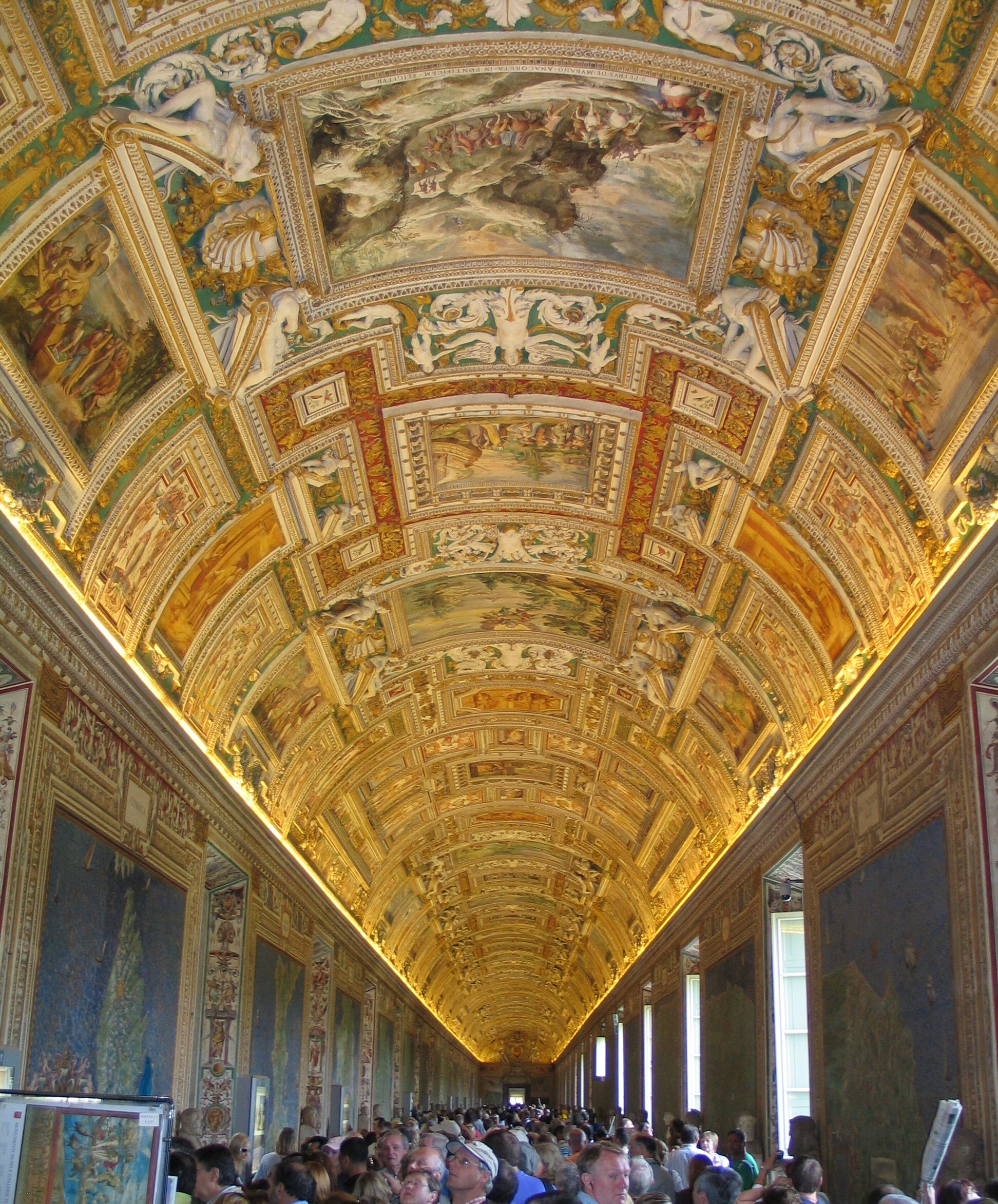 Vatican musem